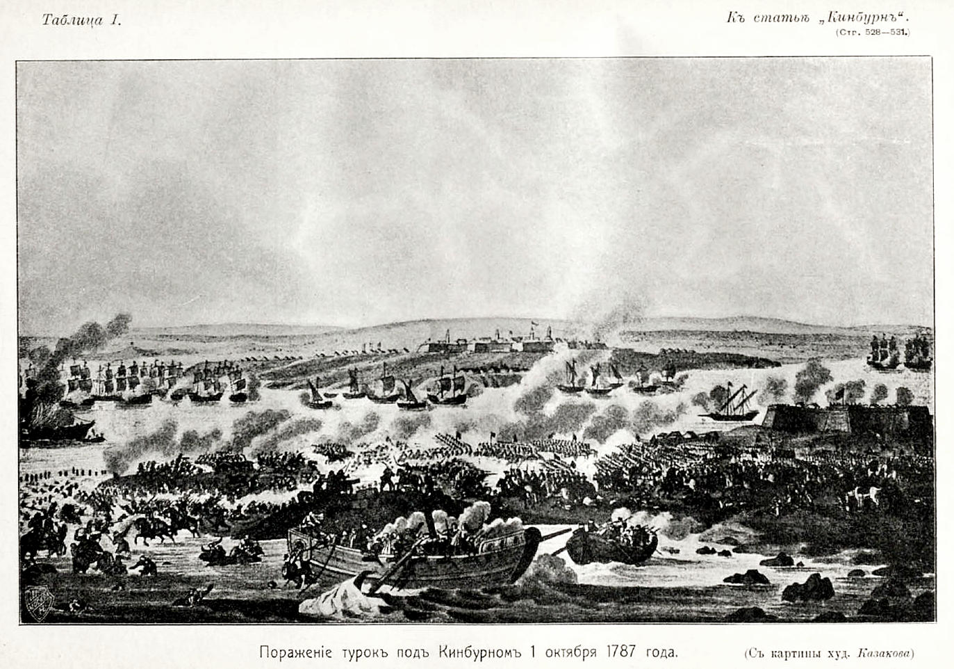 Kinburn peninsula